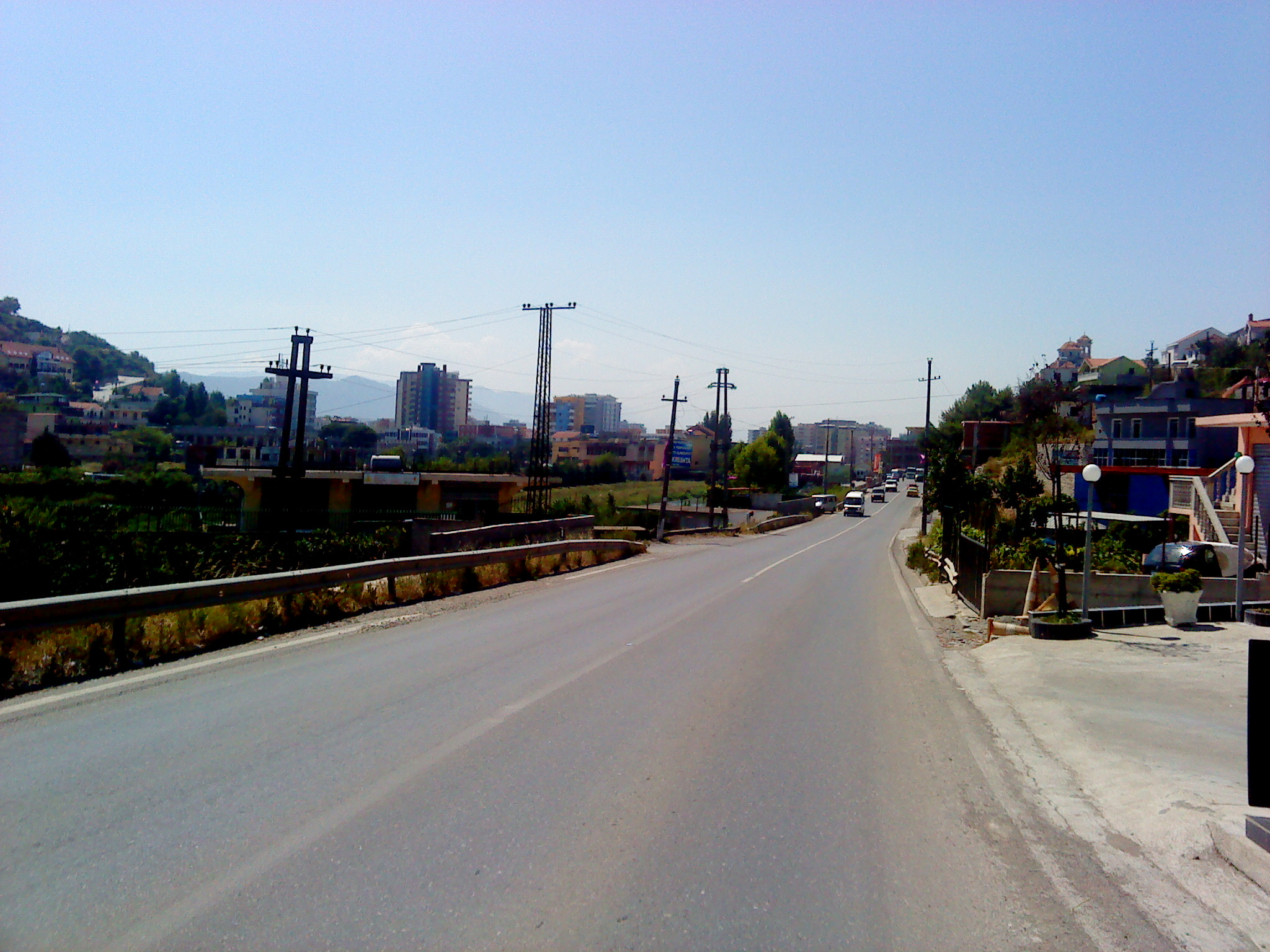 National Road 1 (Albania), albanian National Road in Lezhë